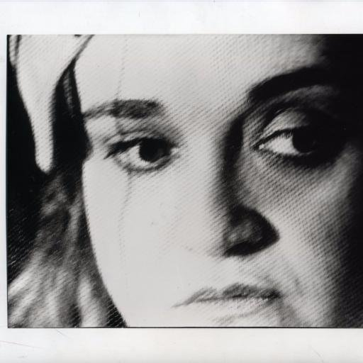 Angelique Rockas as Nereida in Costas Ferris film `Oh Babylon!`